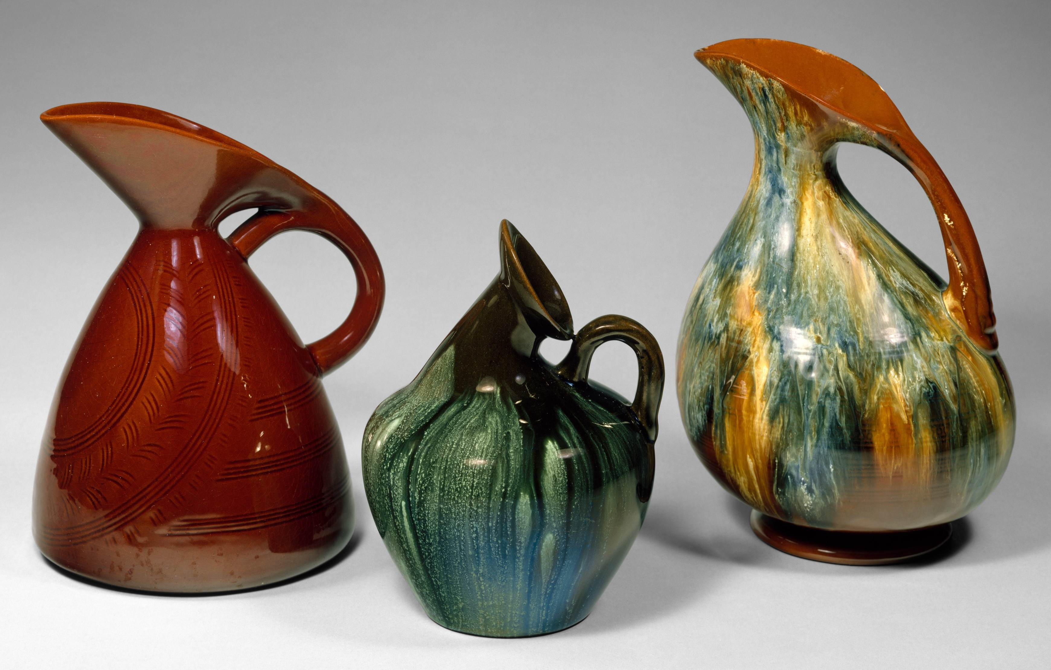 British, Linthorpe, Yorkshire; Pitcher; Ceramics-Pottery